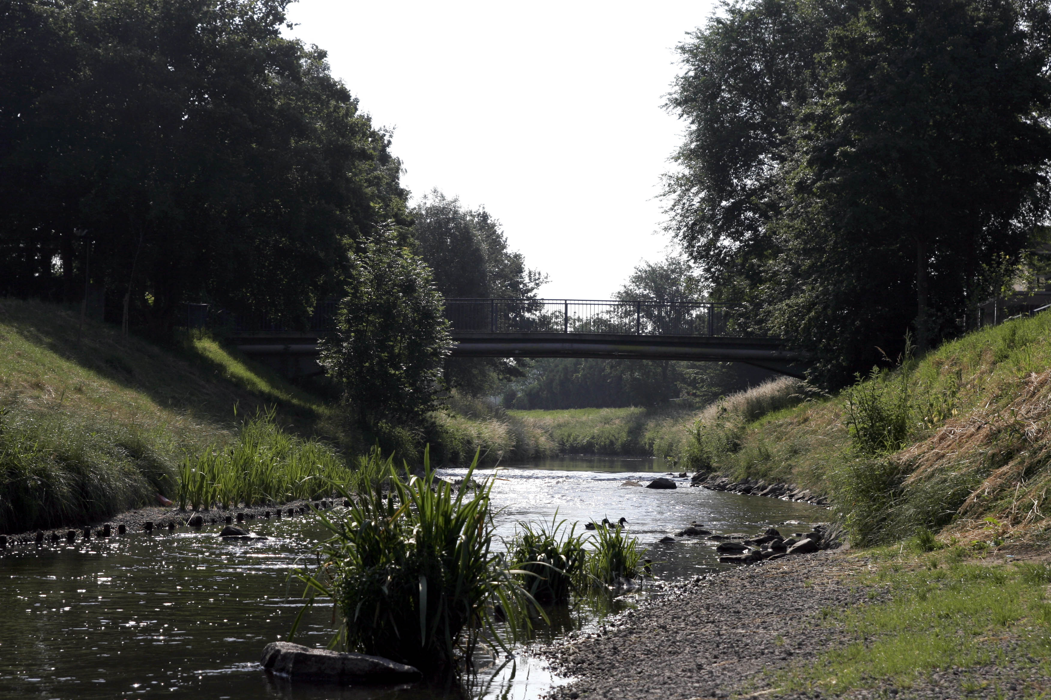 Weschnitz river in Einhausen (Hesse, Germany).